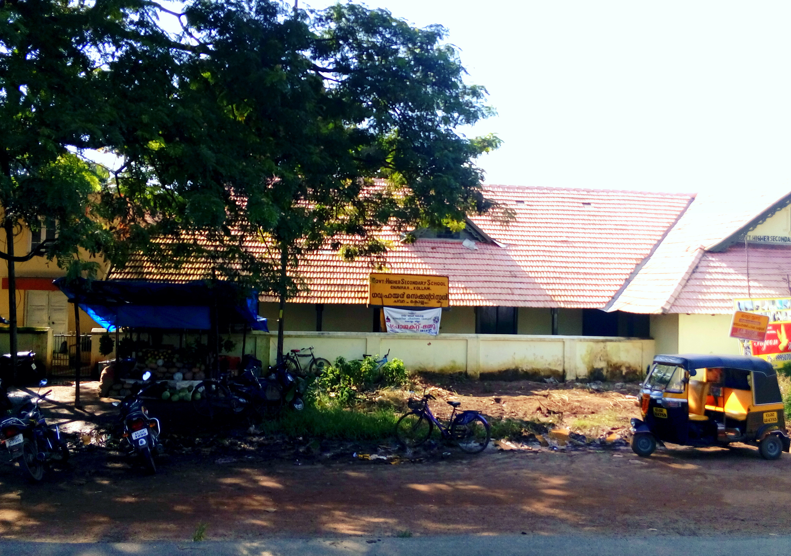 Chavara is a suburb of Kollam city, India